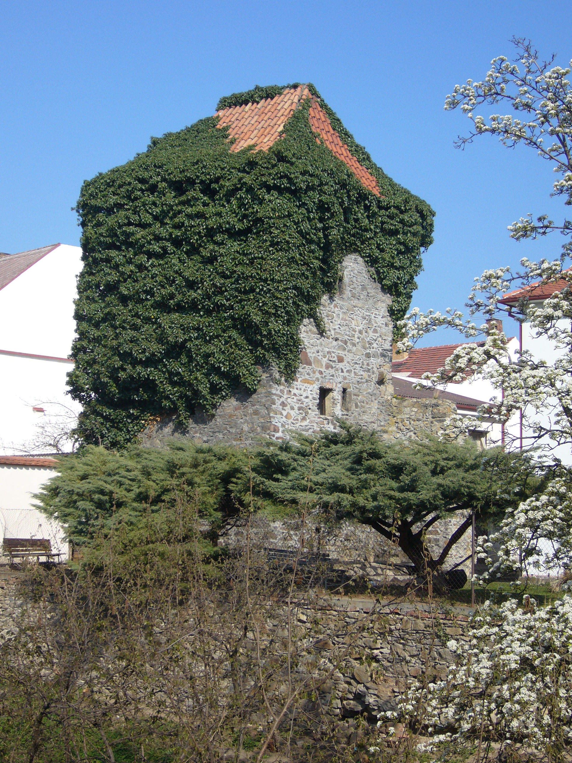 City fortification of Vodňany, South Bohemia Region, Czech republic